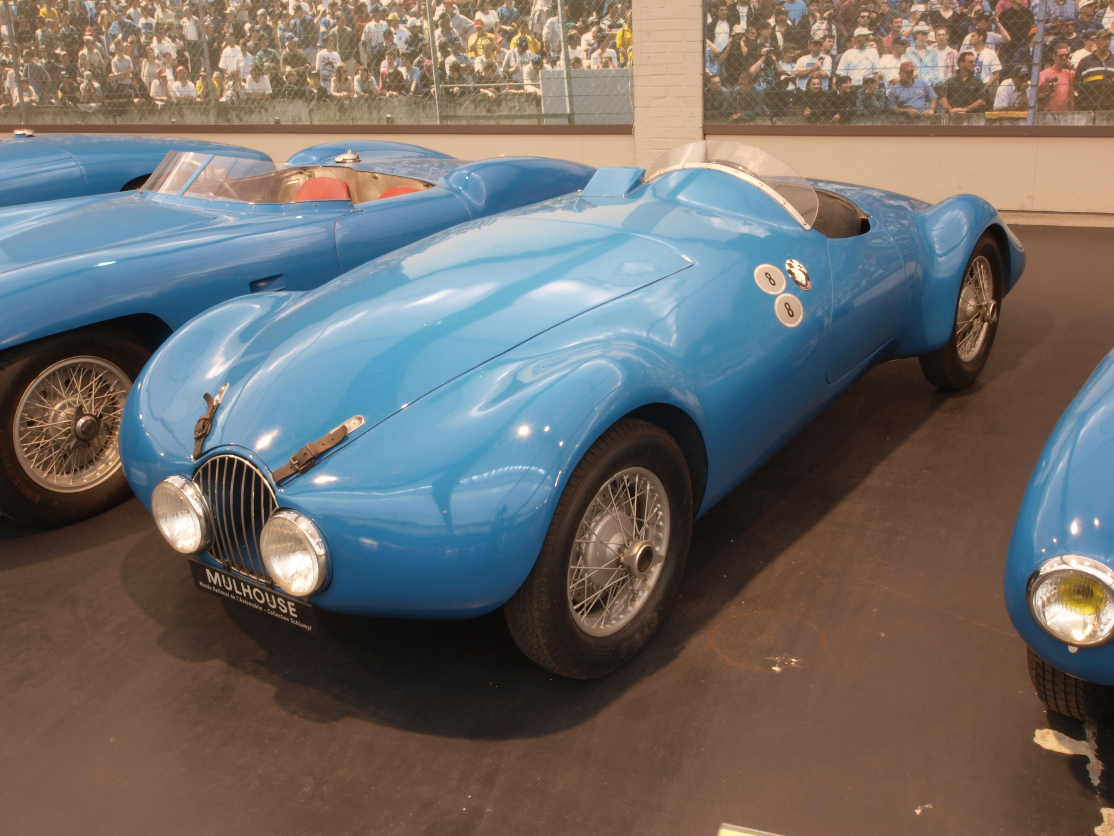 Photographed at the Cité de l’Automobile, France. OLYMPUS DIGITAL CAMERA